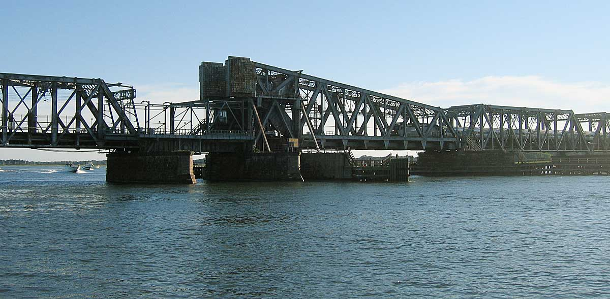 A northbound Amtrak Regional train crosses the Old Saybrook – Old Lyme Bridge